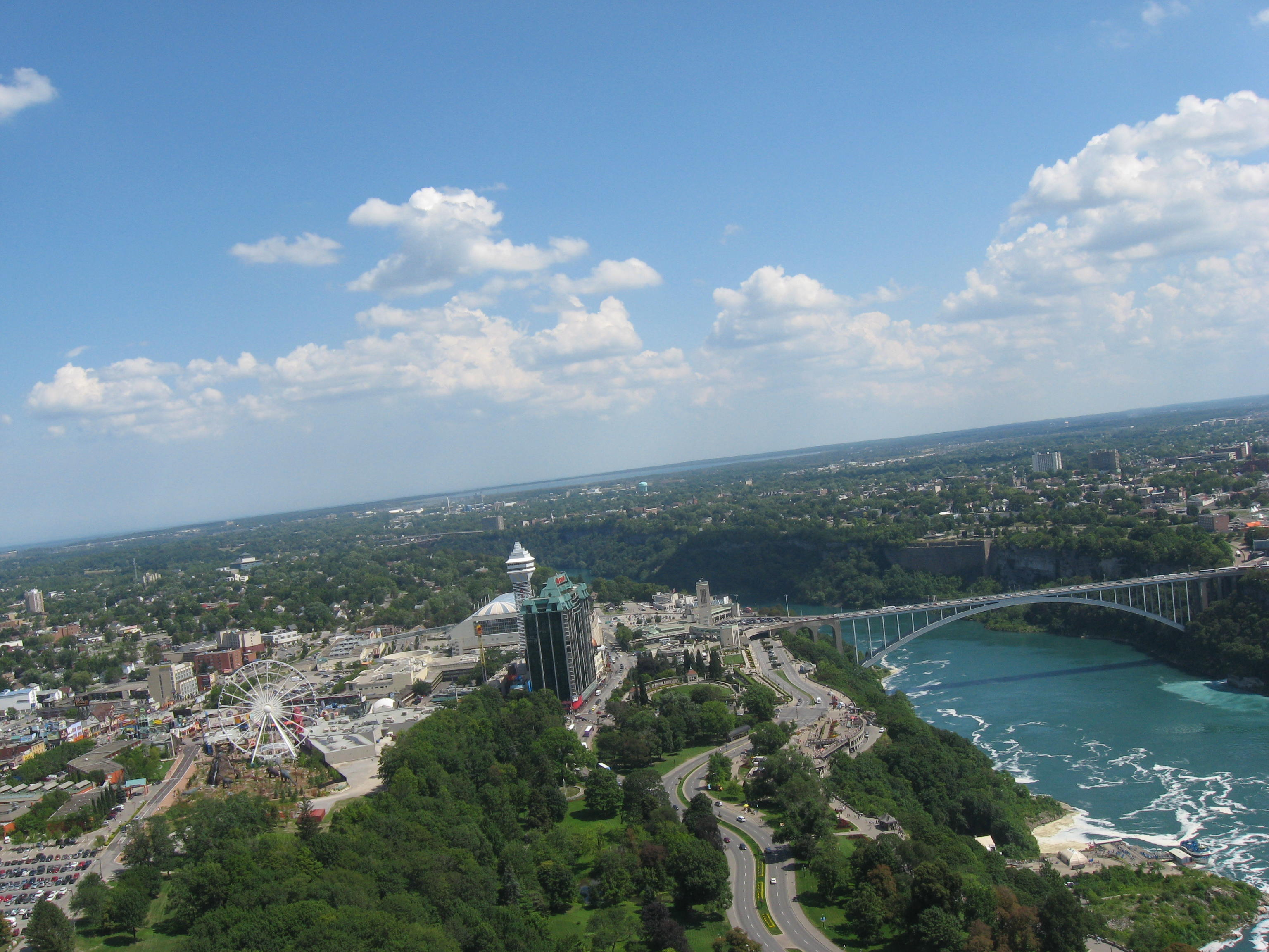 Niagara SkyWheel, Casino Niagara, the Niagara River and the Rainbow Bridge seen from Skylon Tower - the river runs between two "Niagara Falls" cities, with Niagara Falls, Ontario, Canada on the left, and Niagara Falls, New York, U.S. on the right